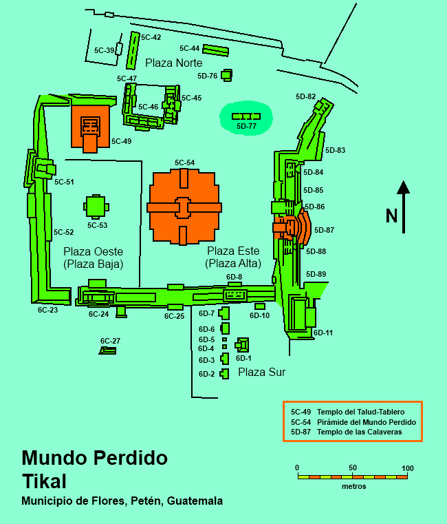 Map of the Lost World (Mundo Perdido) complex in Tikal, Peten, Guatemala. Compiled from various Simposios de Investigaciones Arqueológicas en Guatemala published by the Museo Nacional de Arqueología y Etnología, Guatemala, together with Tikal: Dynasties, Foreigners, & Affairs of State edited by Jeremy A. Sabloff and Tikal: Guía de las Antiguas Ruinas Mayas by William R. Coe.